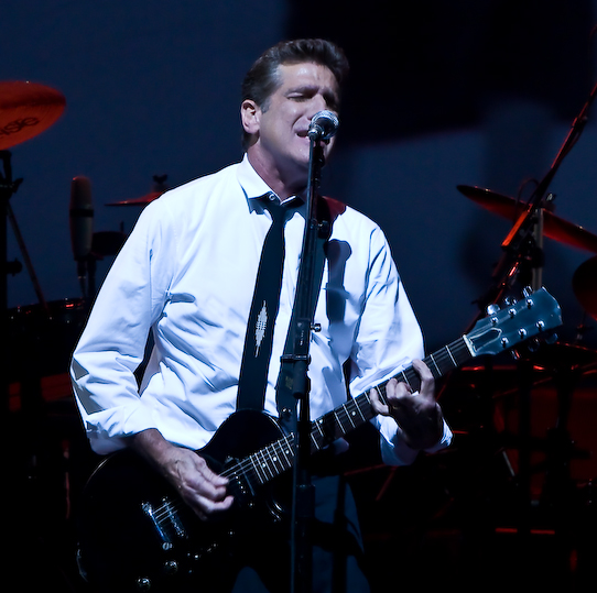 Glenn Frey was a member of the band, The Eagles